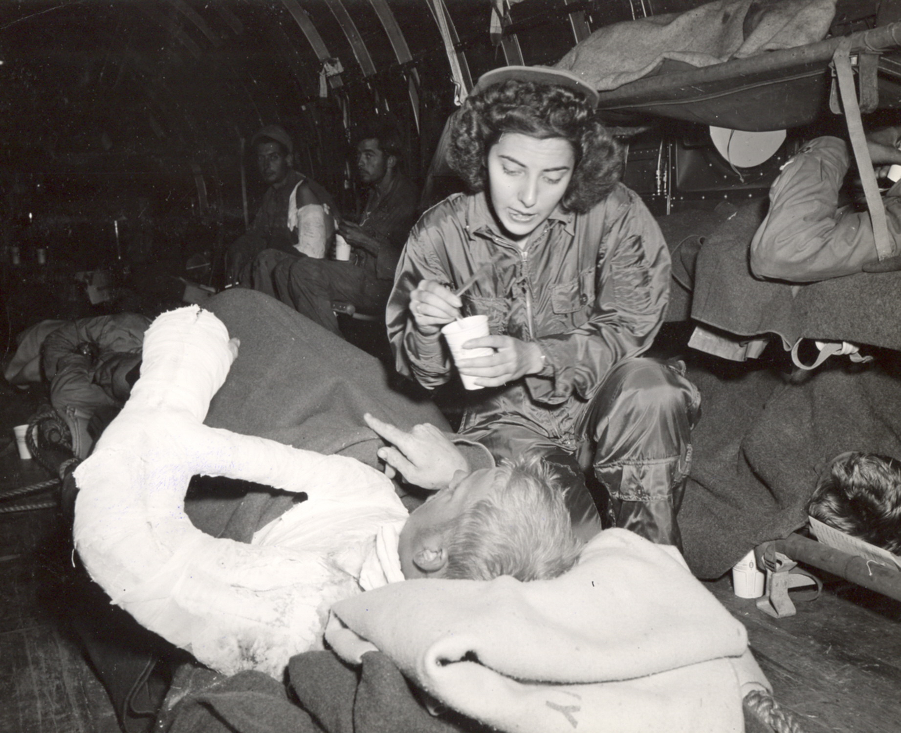 Navy Flight Nurse Jane Kendiegh, trip from Iwo Jima, March 1945